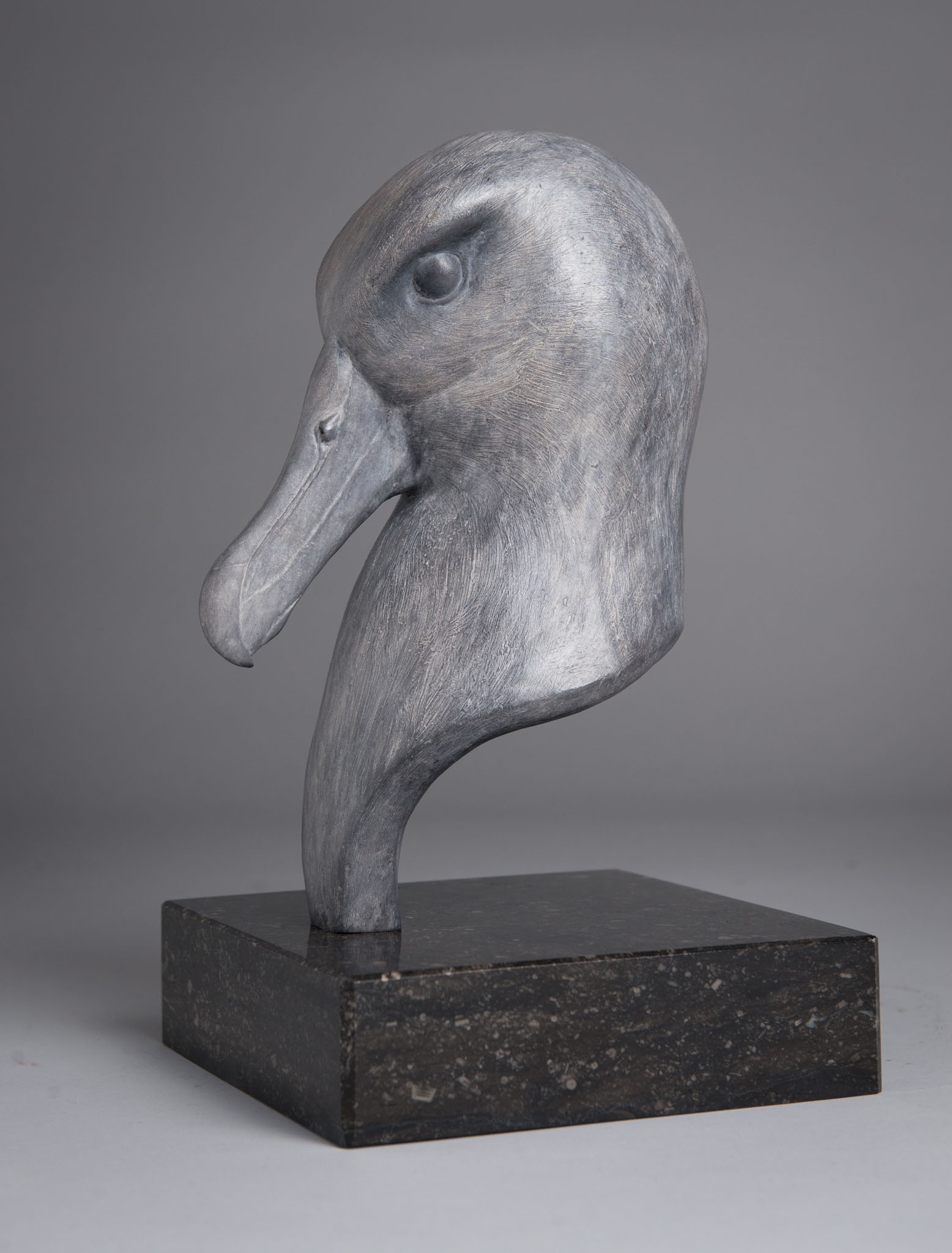 Bronze Albatross Bust by the British sculptor Anthony Smith